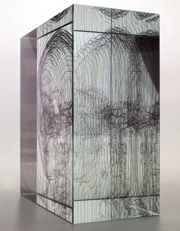 Photograph from Michal Macků